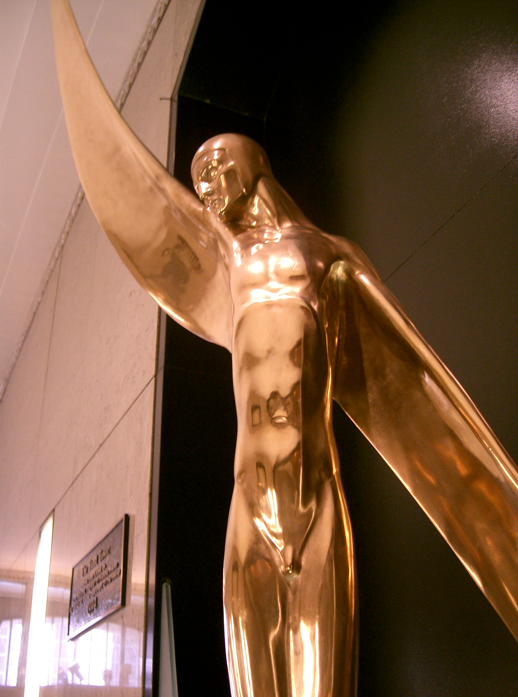 Prominently displayed in the main lobby of the Rand Tower in Minneapolis, MN is the beautiful statue “Wings”. The statue was hand-carved and designed by famed sculptor, Oskar J.W. Hansen. Hansen was well known in the Southwest, where in 1935, he was awarded the commission to sculpt nearly 40 colossal figures for the Hoover Dam in Arizona.